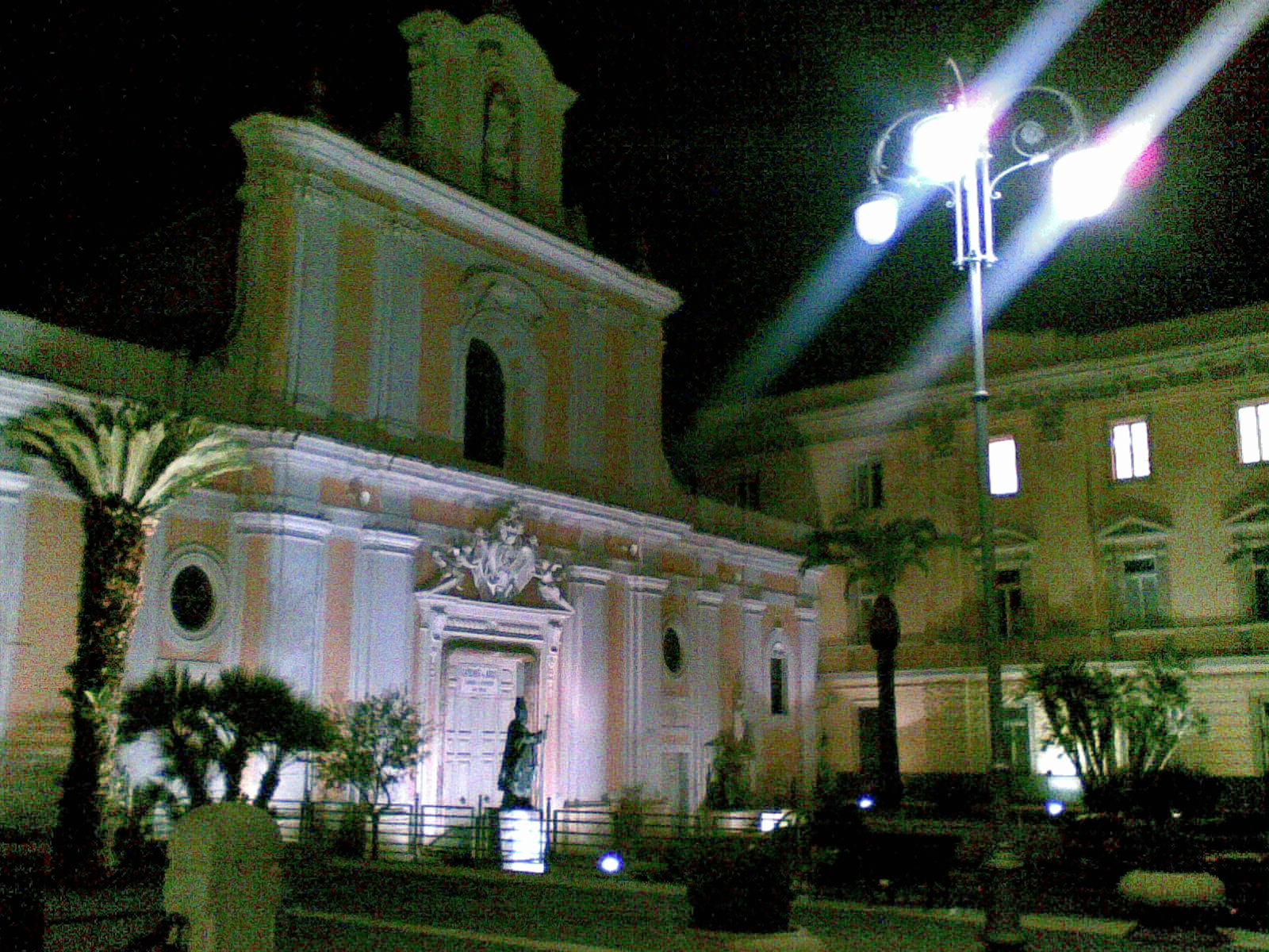 Church of Santa Maria Maggiore in Santa Maria Capua Vetere